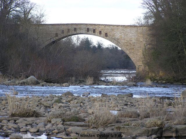 Winston Bridge from the South. Built in 1764, designed by Sir Thomas Robinson, the bridge has a single 100ft wide arch.